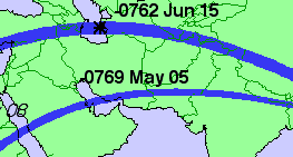 cropped from